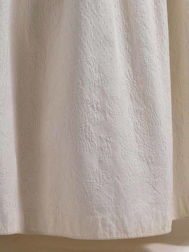 Anonymous. Detail of a skirt in cotton, with imitation quilting (called marcella weave), 1830-1840. Jacoba de Jonge Collection in MoMu - Fashion Museum Province of Antwerp, Photo by Hugo Maertens, Bruges. MoMu collection T13/1001/O152. Go to [1] and type in the MoMu collection number to find more information about the object